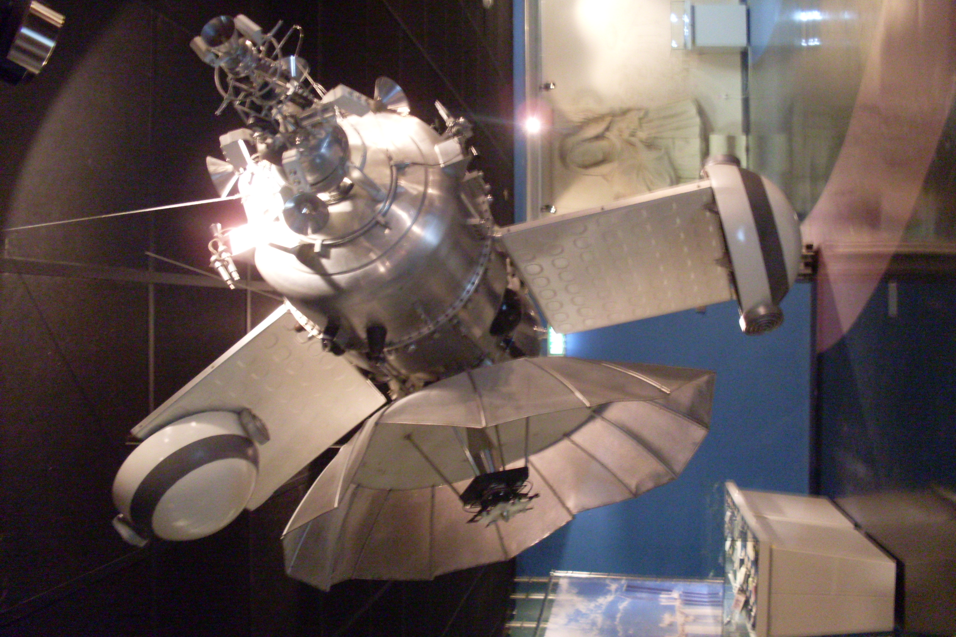 Mockup (1:3) of the spacecraft Mars 1 at Memorial Museum of Astronautics (Moscow).